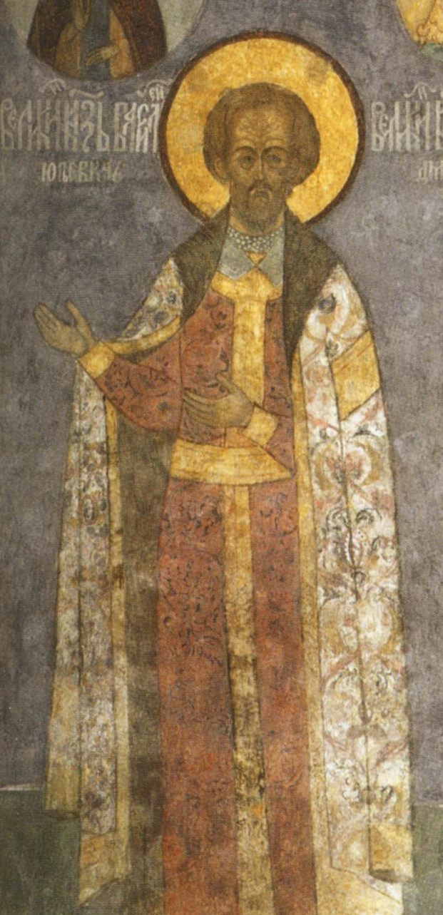 Vasily Yurievich Kosoy, Grand Prince of Moscow (1434). Frescoes of Cathedral of the Archangel in the Moscow Kremlin